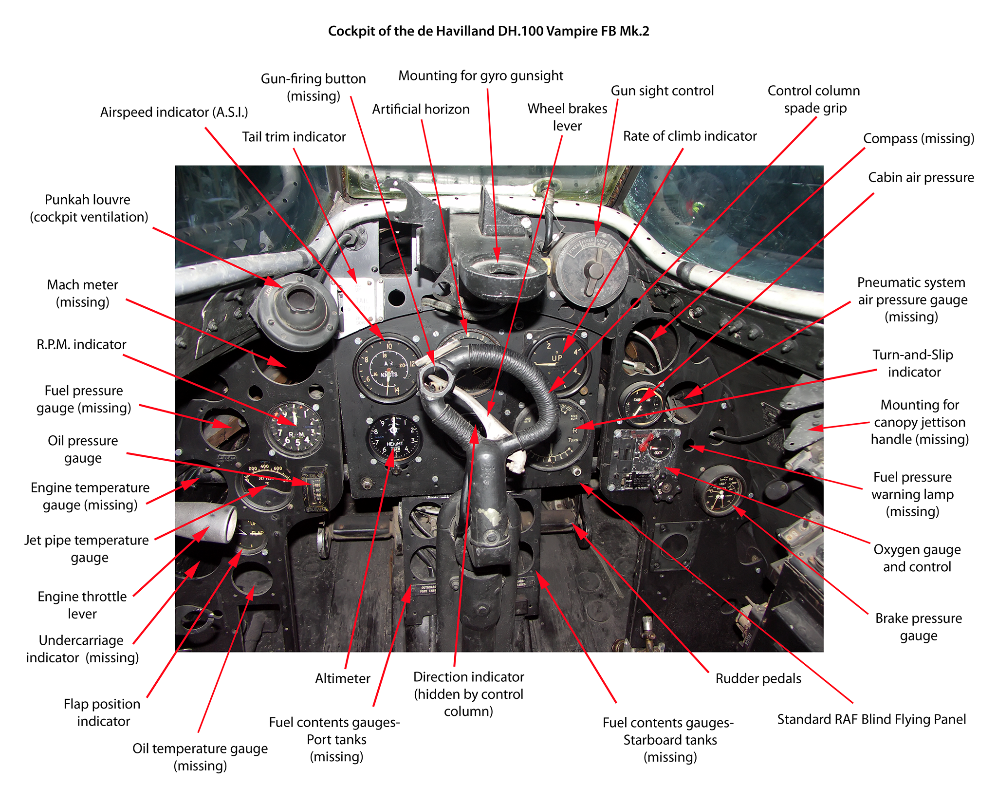 An annotated PNG version of Image:De Havilland DH-100 Vampire FB mk2 Interior-001.jpg created by me Ian Dunster (talk) 14:43, 27 July 2008 (UTC) form the original JPG image by NJR ZA